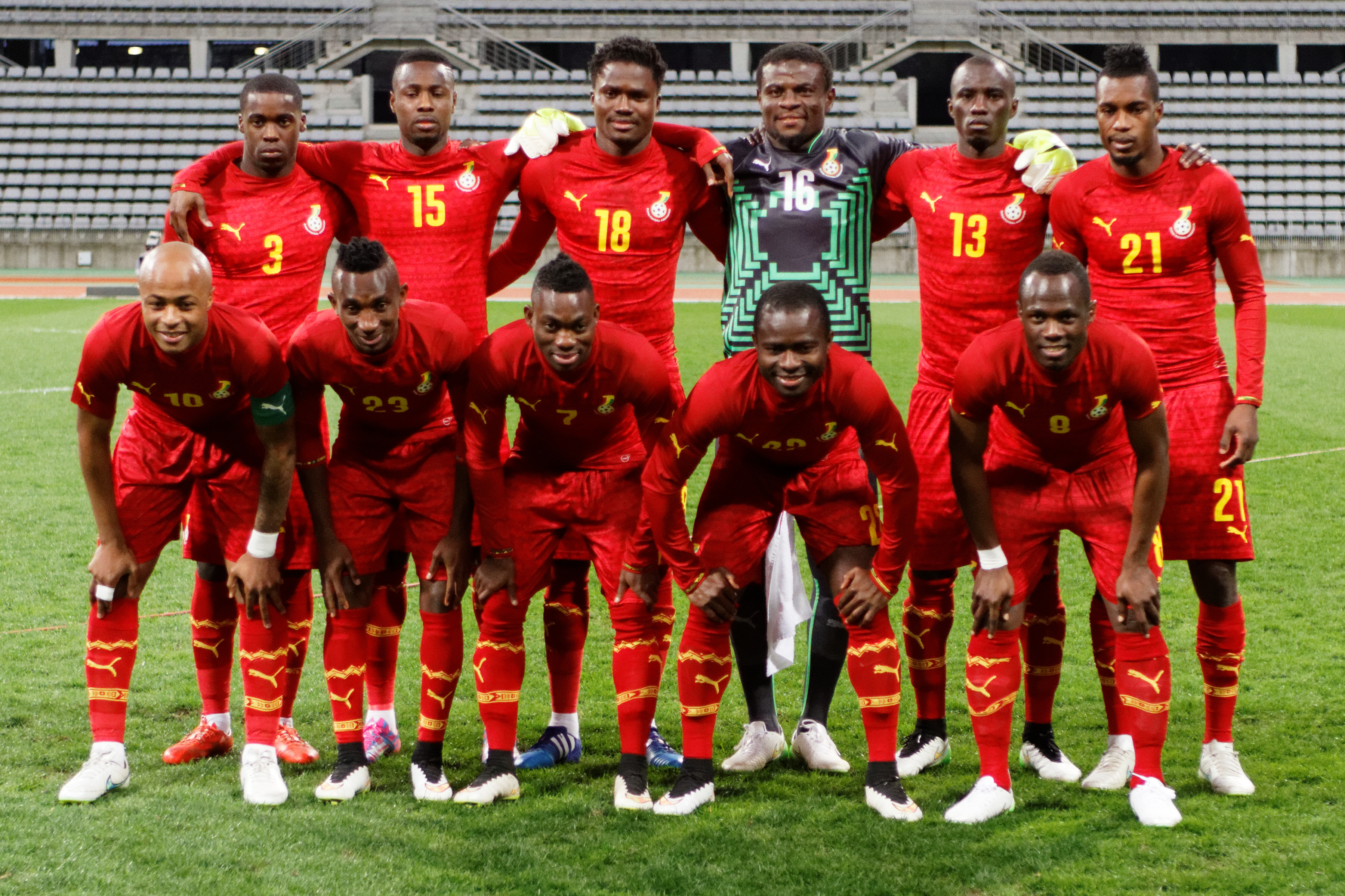 Mali vs Ghana, exhibition game at Paris, 31st March 2015. Team of Ghana.